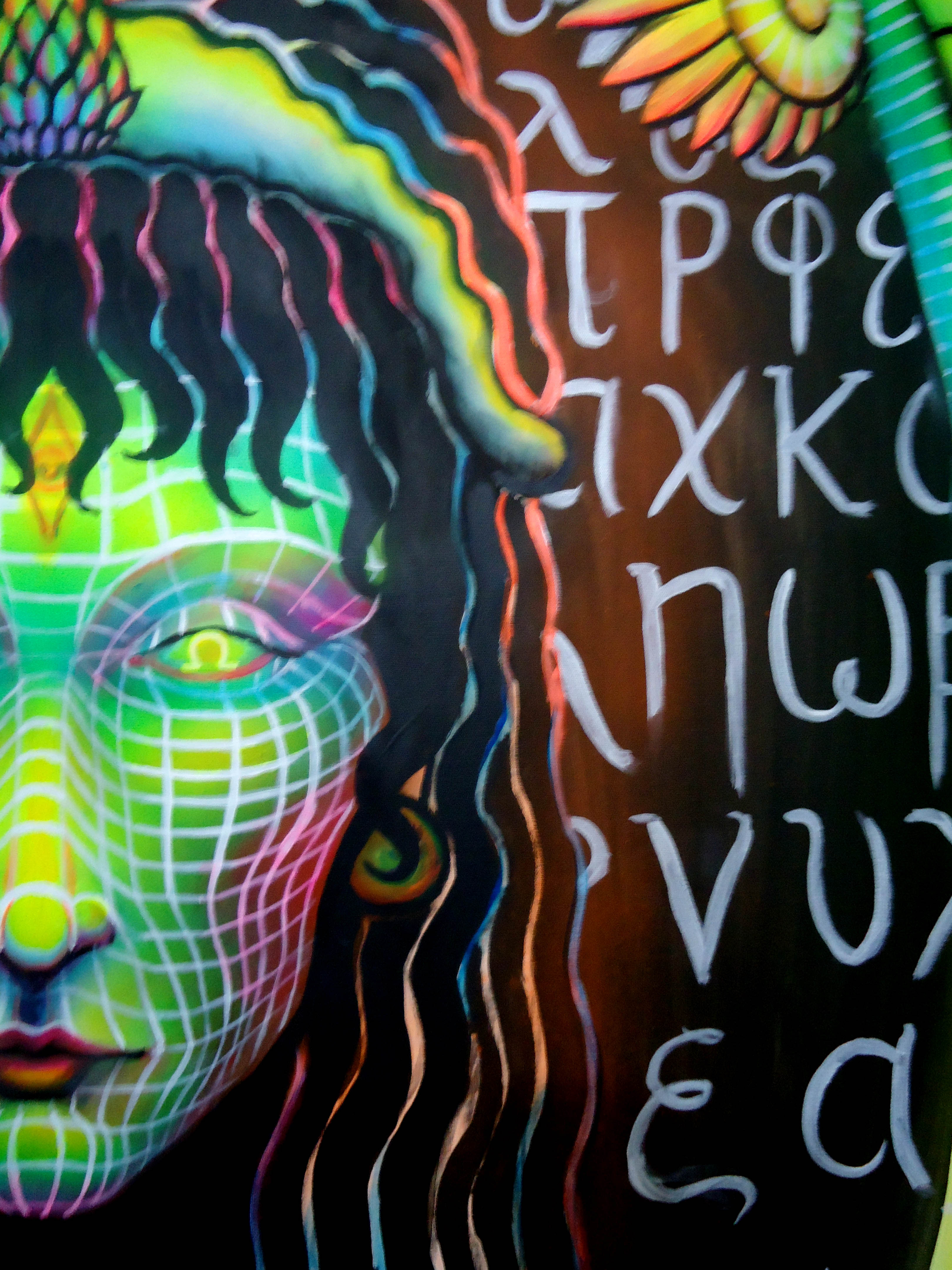 fluor, Fluorine, visionary art, UV, fluorine art, sphinx, art, painting, brushwork, psytrance, art psyparty, deco, Roque Logozzo